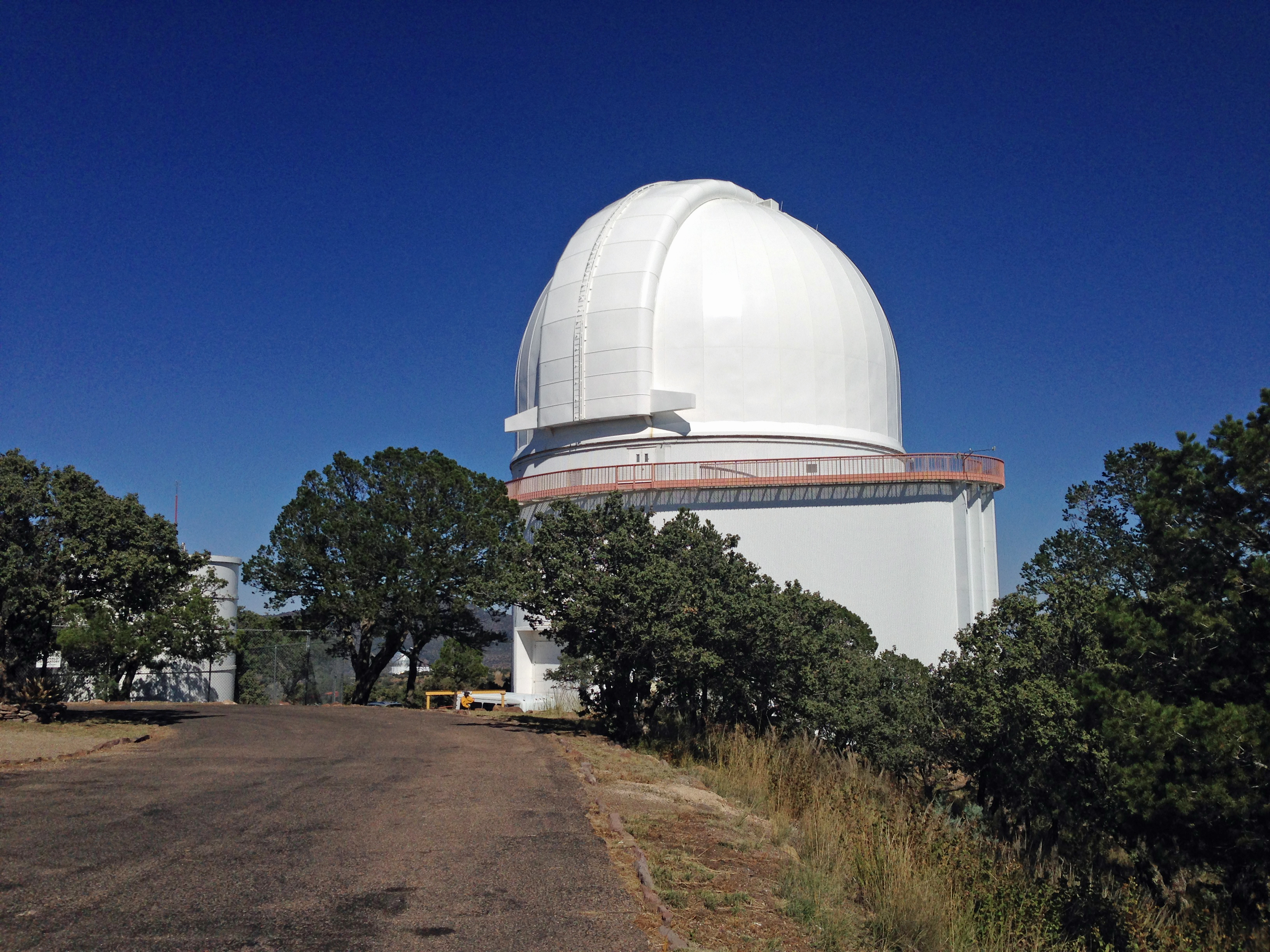 The Harlan J. Smith Telescope at the McDonald Observatory in October 2013.